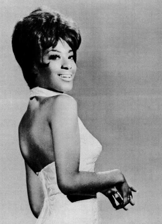 Trade ad for Marlena Shaw's single "Mercy Mercy Mercy".To better adapt it to his respective Wikipedia article, the ad was cropped and cleaned in a graphics editing program. The original can be viewed at the source below.